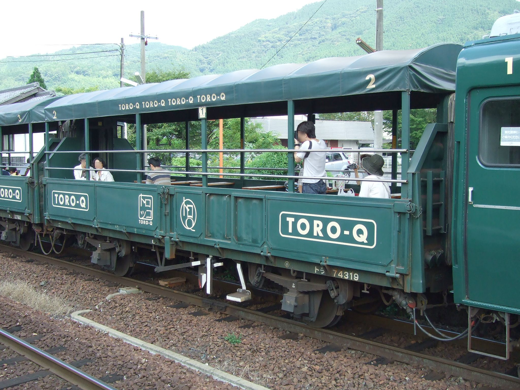 JR Kyushu ToRa 70000 ToRa 74319 as part of the "Toro-Q" train at Minami-Yufu Station on the Kyūdai Main Line in Yufu, Oita, Japan